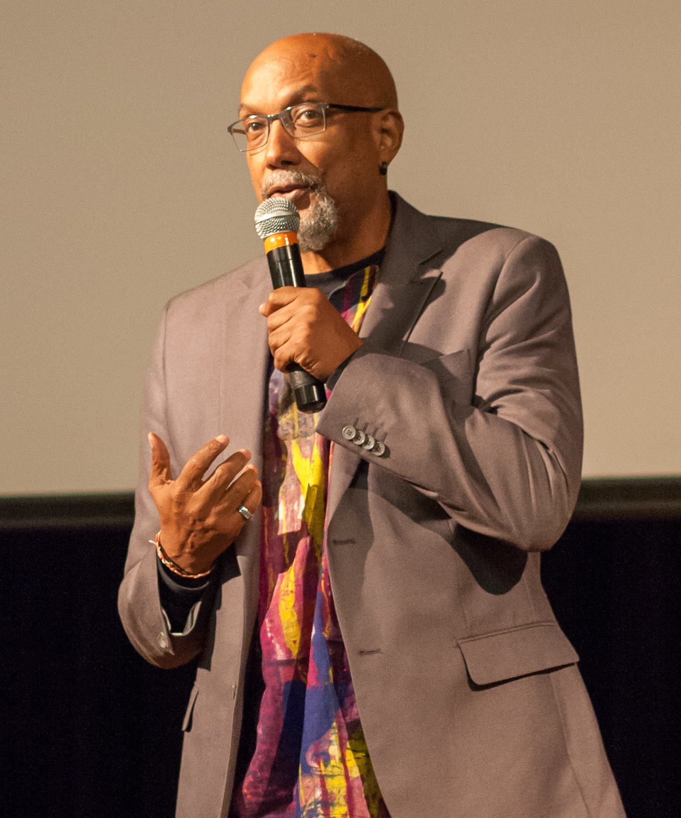 Ajamu Baraka speaks at a rally for Jill Stein at the Berkeley City Club, October 2016.